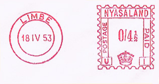 Meter stamp catalog image, Malawi type A1